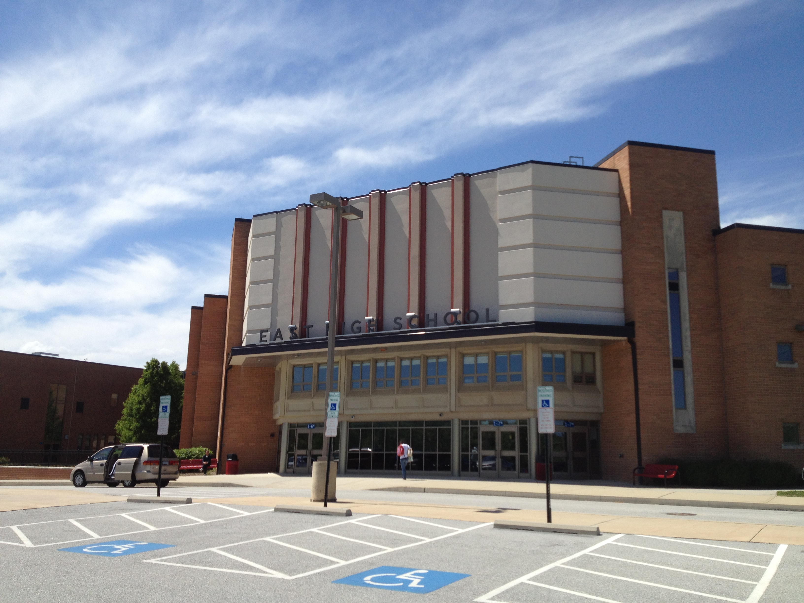 West Chester East High School from my camera